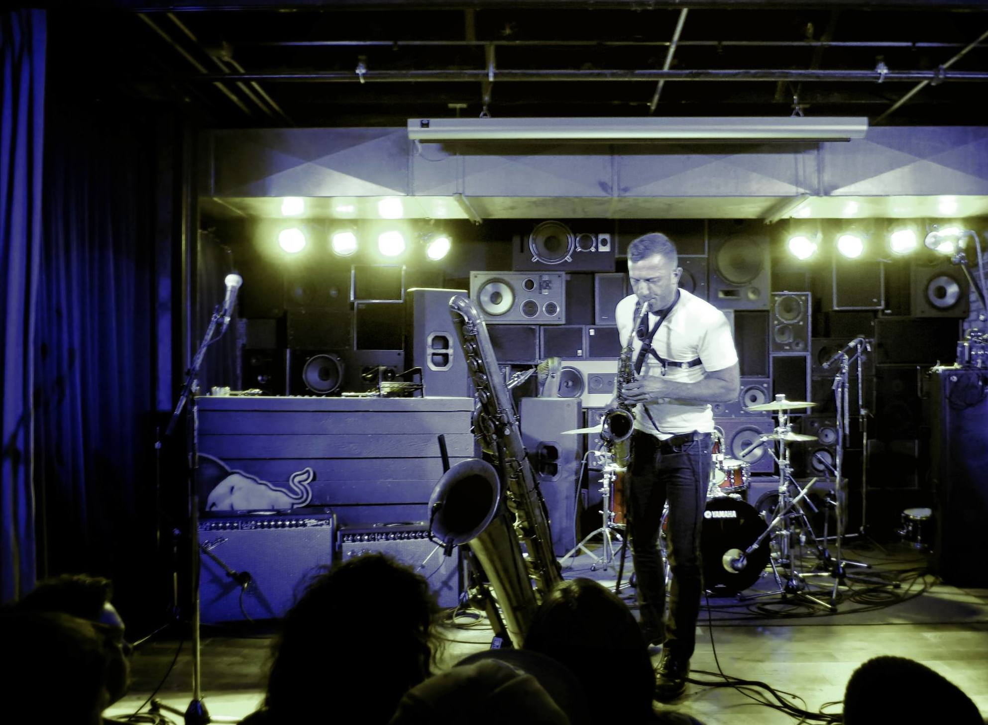 Colin Stetson at Sled Island, 2013, the night before Calgary flooded.